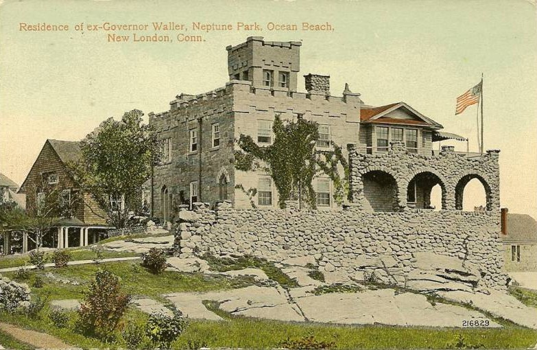 Postcard picture of the home of Thomas M. Waller, former governor of Connecticut (1883-1885), "Neptune Park"(apparently the name of the home) in the Ocean Beach section of New London, Connecticut (picture is cropped slightly on left and right sides)